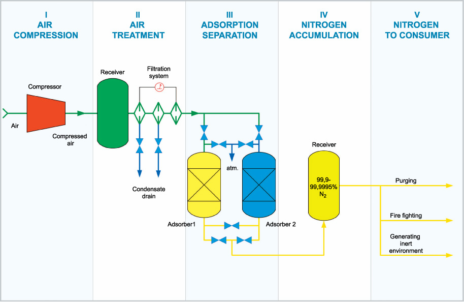 Flow chart of adsorption nitrogen generator produced by GRASYS.